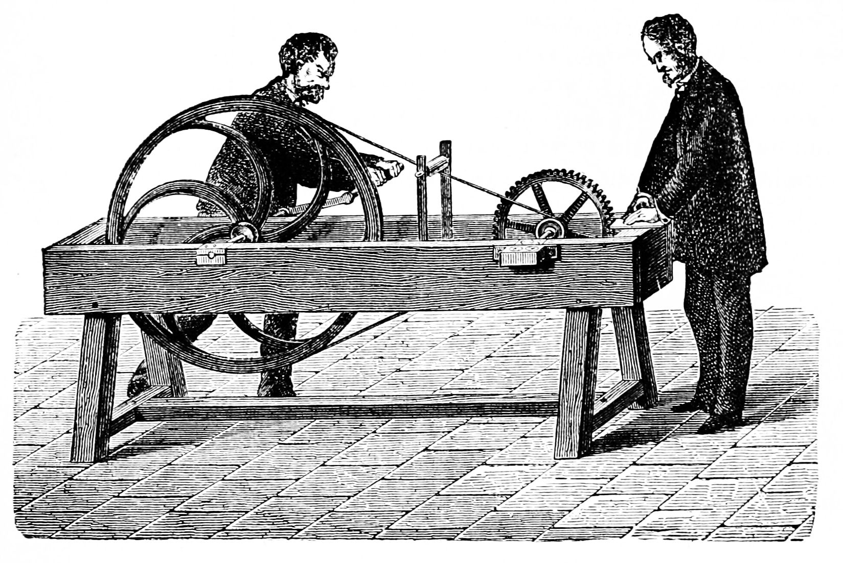 Savart's apparatus for numbering vibrations